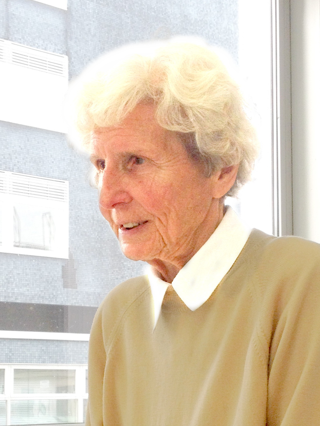 Dr. Ingetraut Dahlberg at a lecture 25 October 2014 at Ernst-Schröder-Zentrum in Darmstadt.